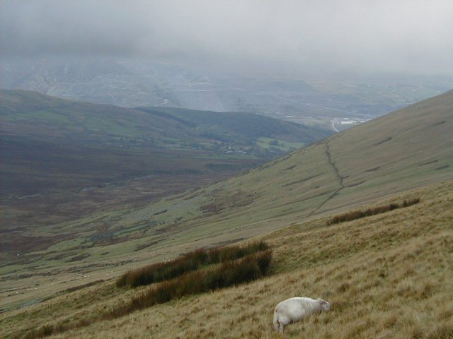 Valley of Afon Caseg. View SW along valley with southern slopes of Gyrn Wigau to the right.